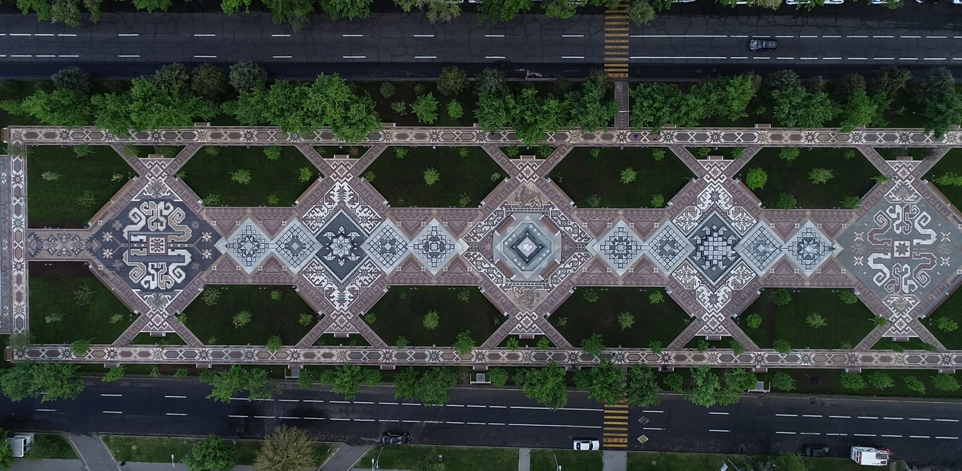 Yerevan 2800th Anniversary Park